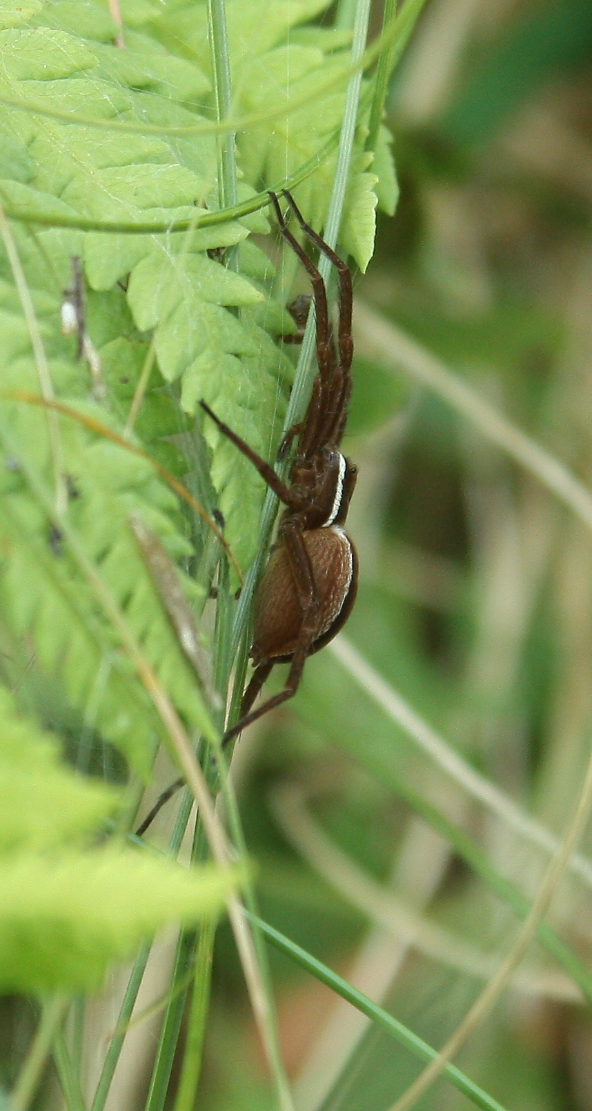 A female Dolomedes striatus (Pisaudridae), standing on a fern under which she laid her eggs. The specimen was observation in a minerotrophic peatland slowly covering a small lake, Saint-Narcisse-de-Rimouski, Québec. It was captured for species determination.